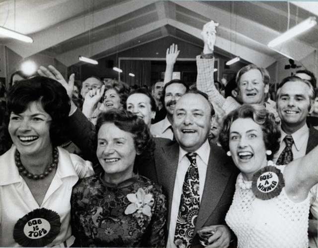 Celebrating on election night, November 29 1975 Archives New Zealand reference: AAXO 8092 W4742 Box 7 Item 17